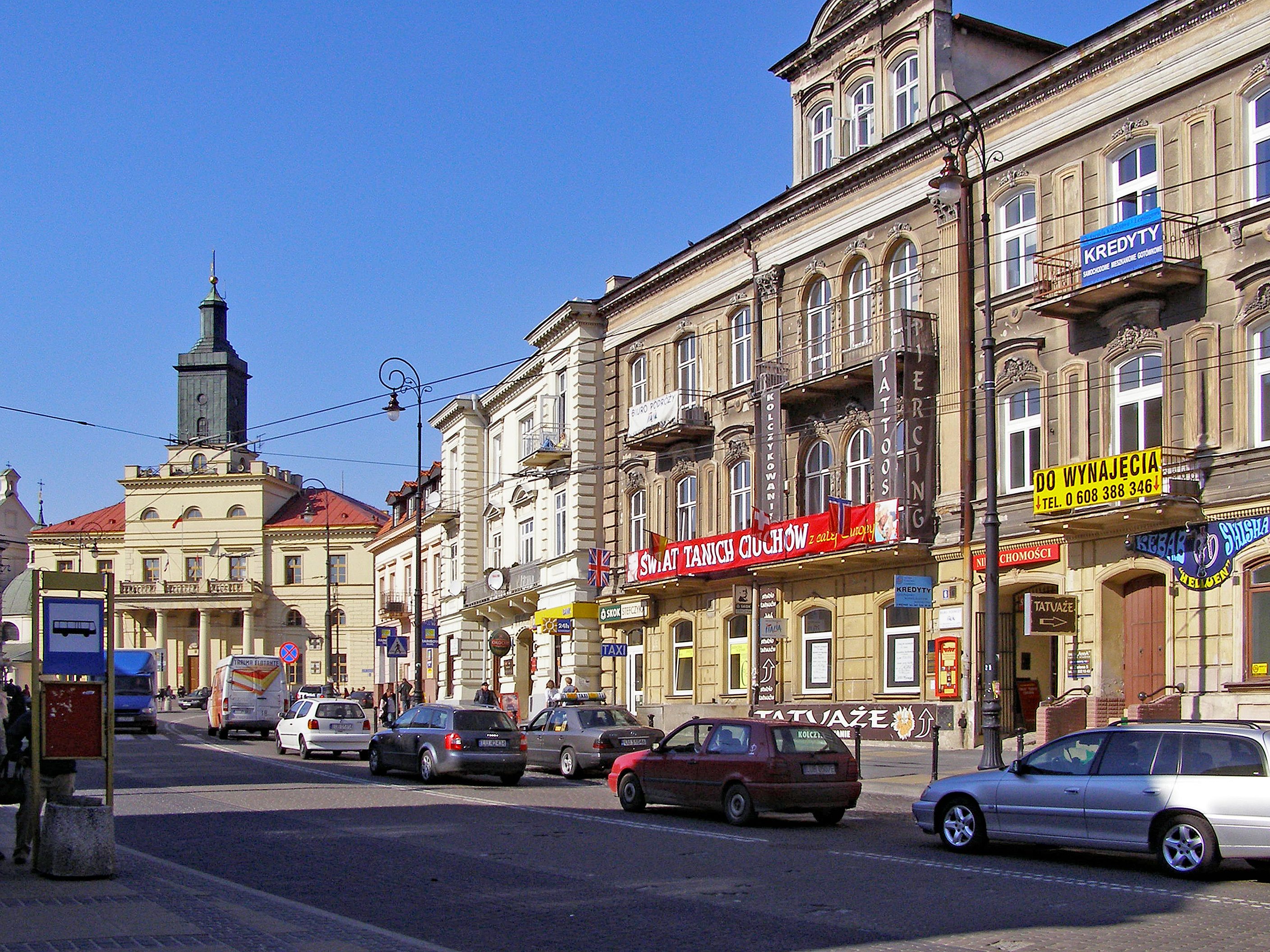 Królewska Street in Lublin. View on the Town Hall.